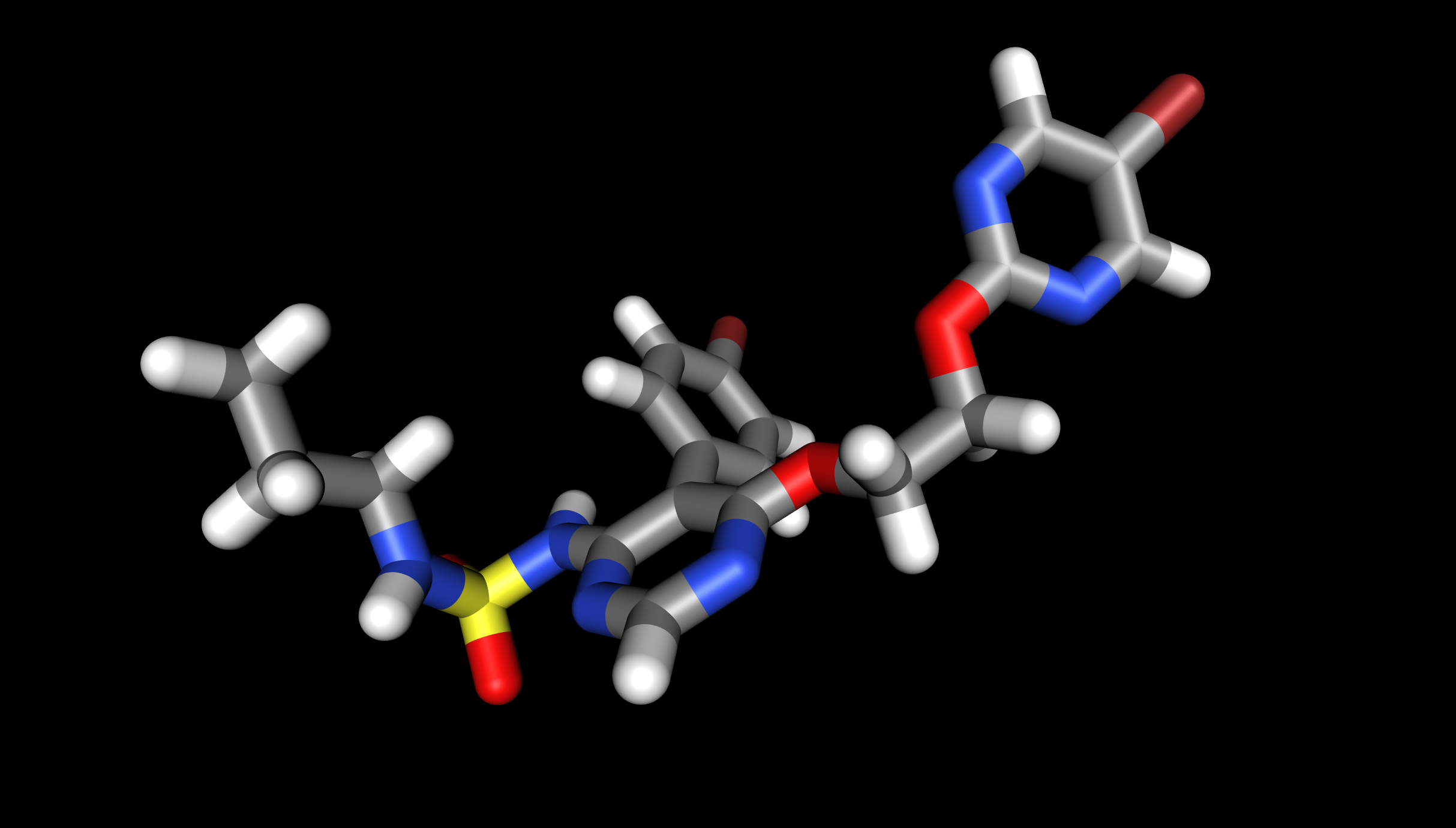 Stick-model of Macitentan.